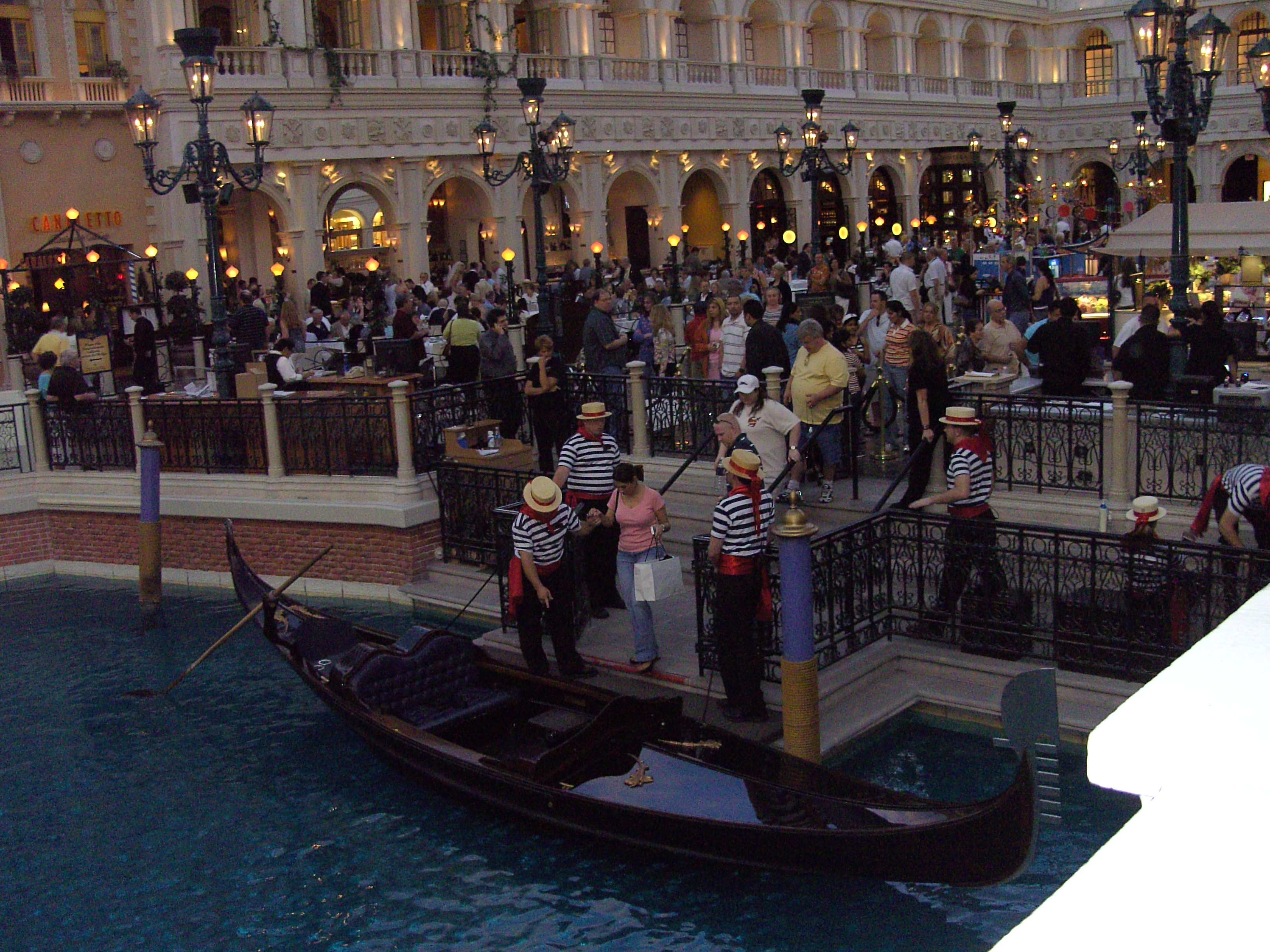 Gondola inside The Venetian Hotel